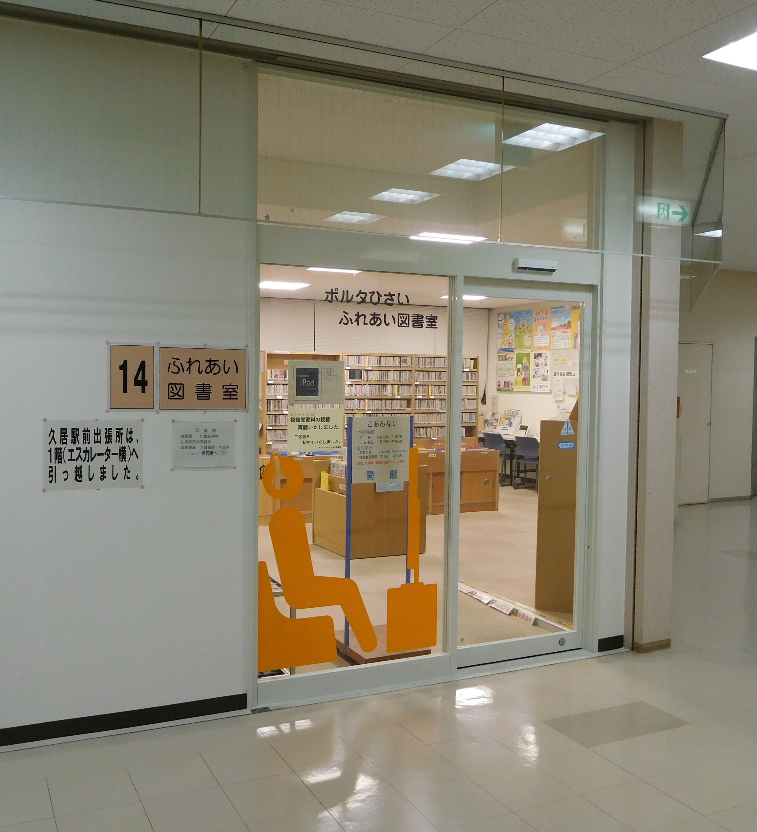 This is the PORTA Hisai Fureai Library in Tsu, Mie, Japan. It is in Hisai station building "PORTA Hisai".